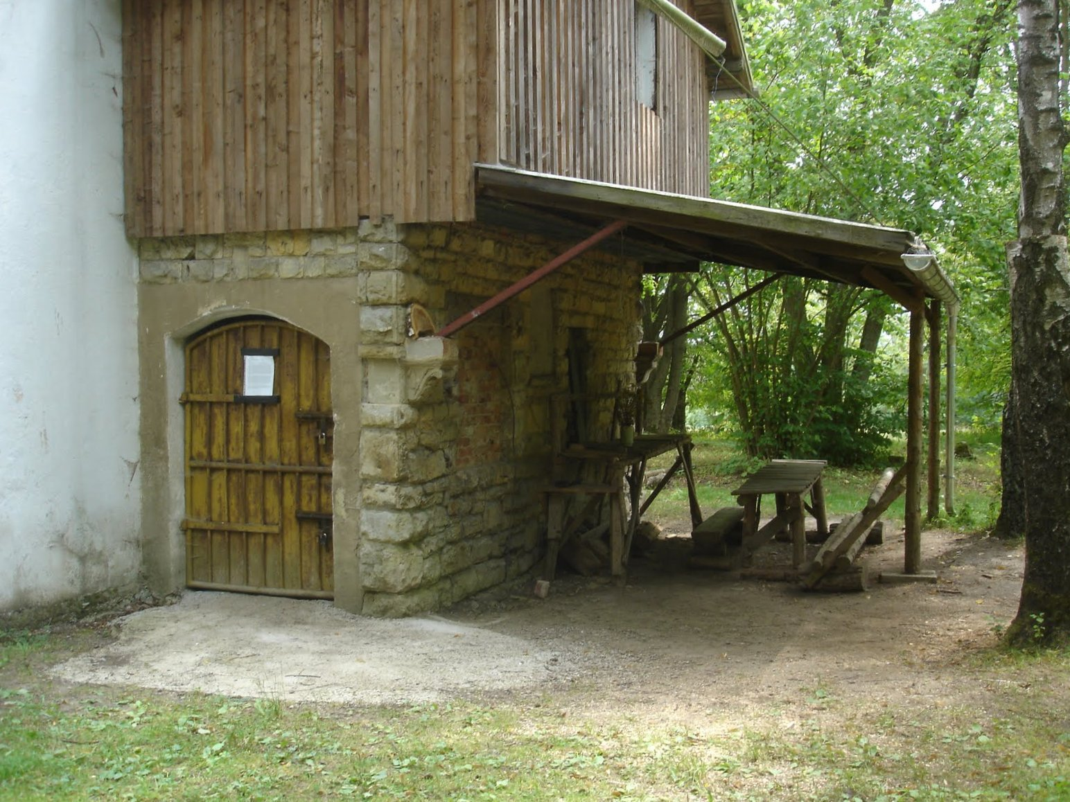 Bakuninhütte (Bakunin hut) (near Meiningen) in summer 2011